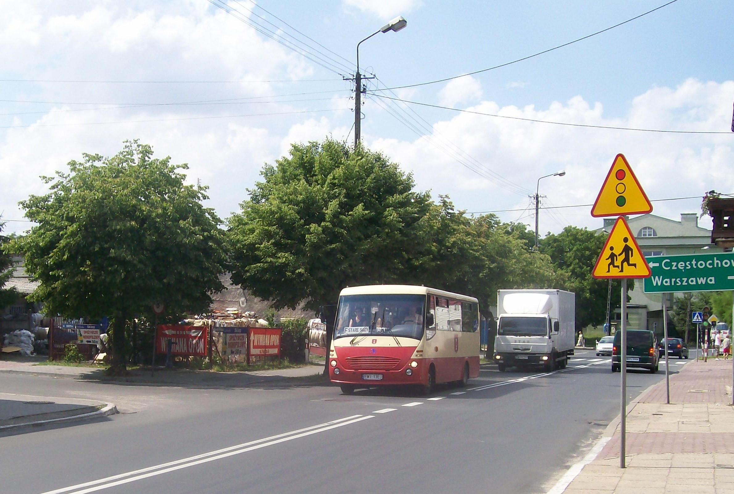 18. Stycznia Street in Wieluń. Autosan H7-20.05 Trafic city bus (EWI 13EJ). Built 2004, ZKM Wieluń operator.